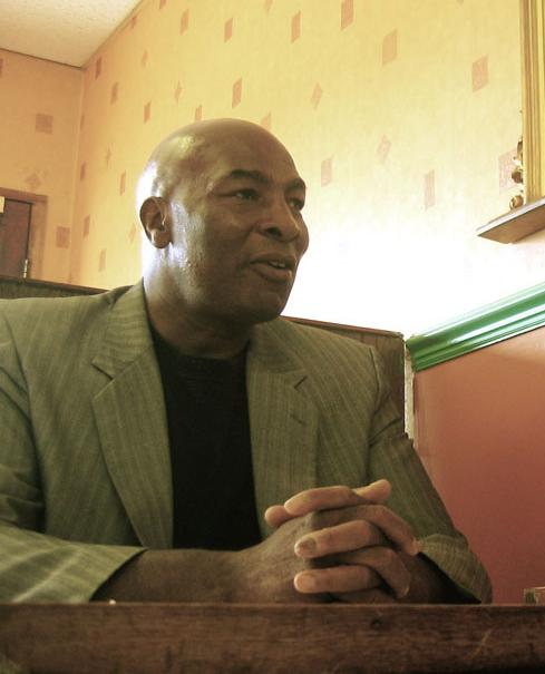 Ernie Shavers during a restaurant interview.